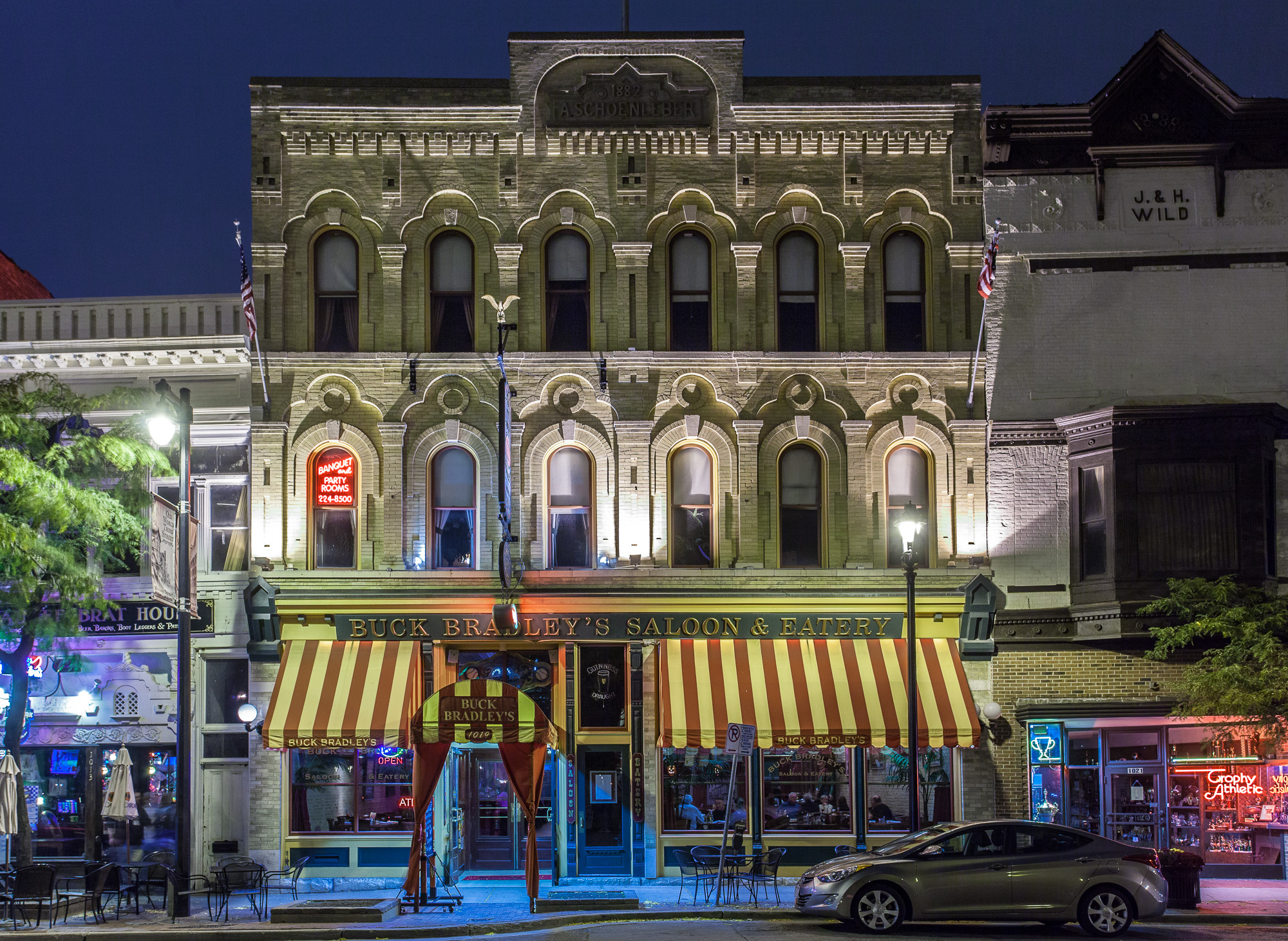 The Schoenleber Building (1882) is part of the Old World 3rd Street Historic District.